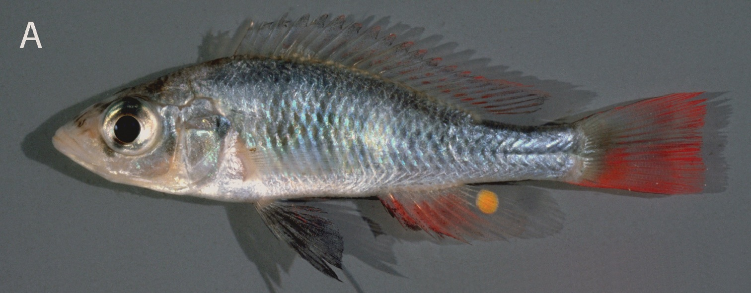 Live colours of Haplochromis argens: sexually active ♂, 59.3 mm SL (paratype, RMNH.PISC.83622), Emin Pasha Gulf.